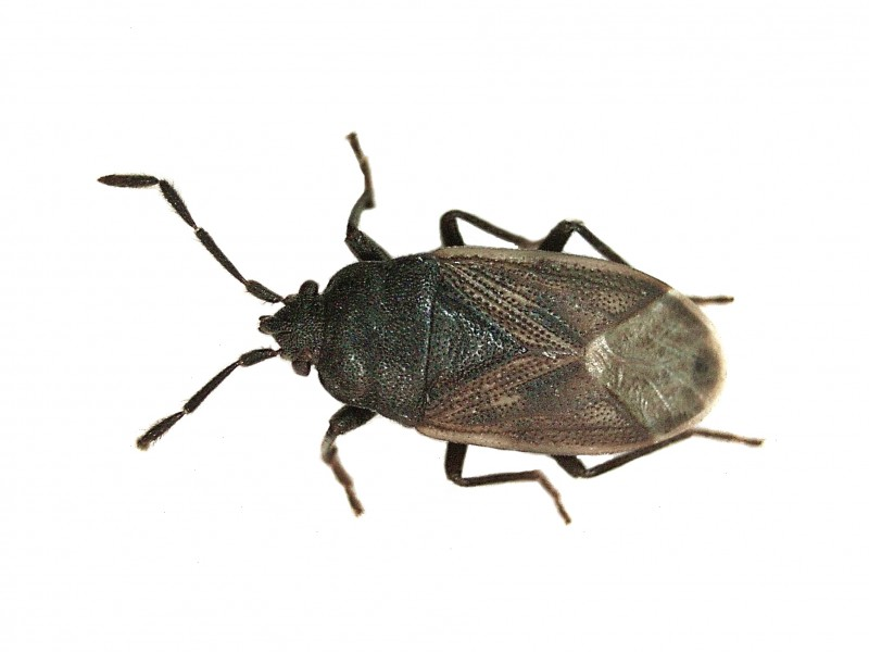 Drymus sylvaticus (Lygaeidae) - (imago), Arnhem - Schuytgraaf, the Netherlands